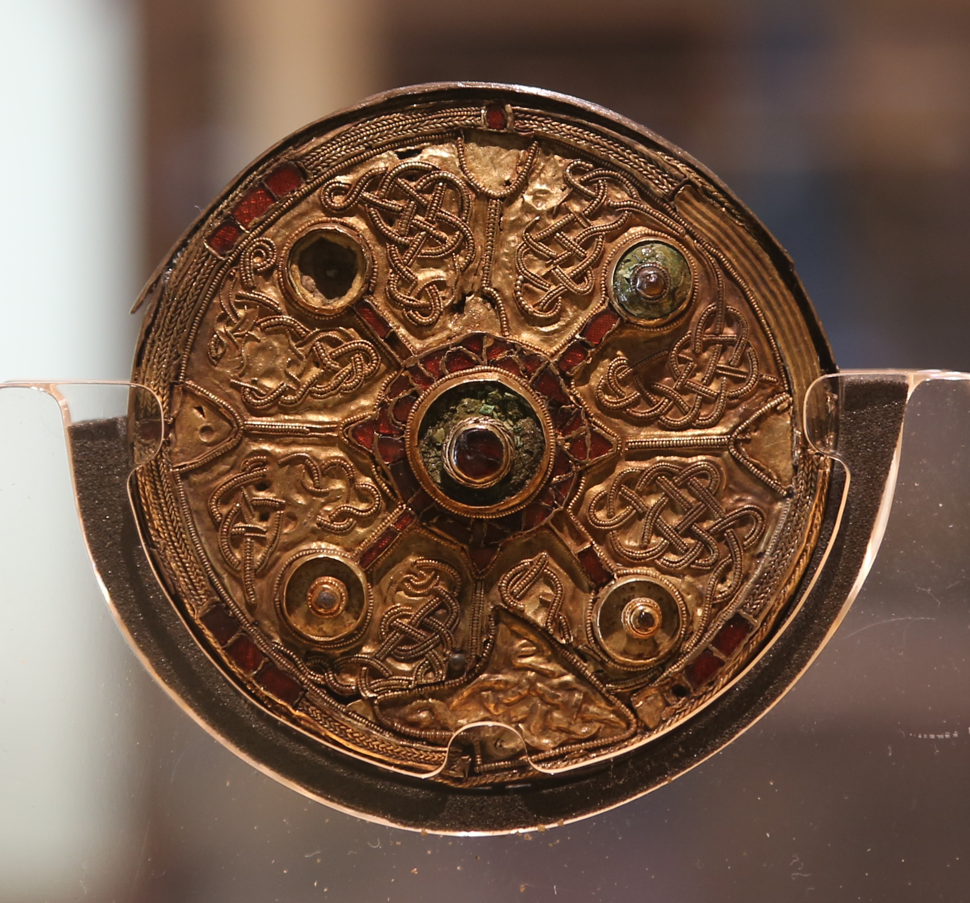 Photo of the front of the Harford farm brooch